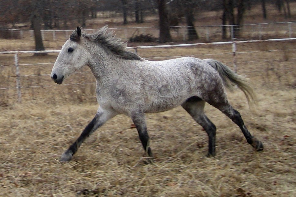 Full body shot of a Curly horse galloping through pasture. Horse Pictured is *NE Prime Time Regal owned by Lindsay Braman, Photograph by Lindsay Braman